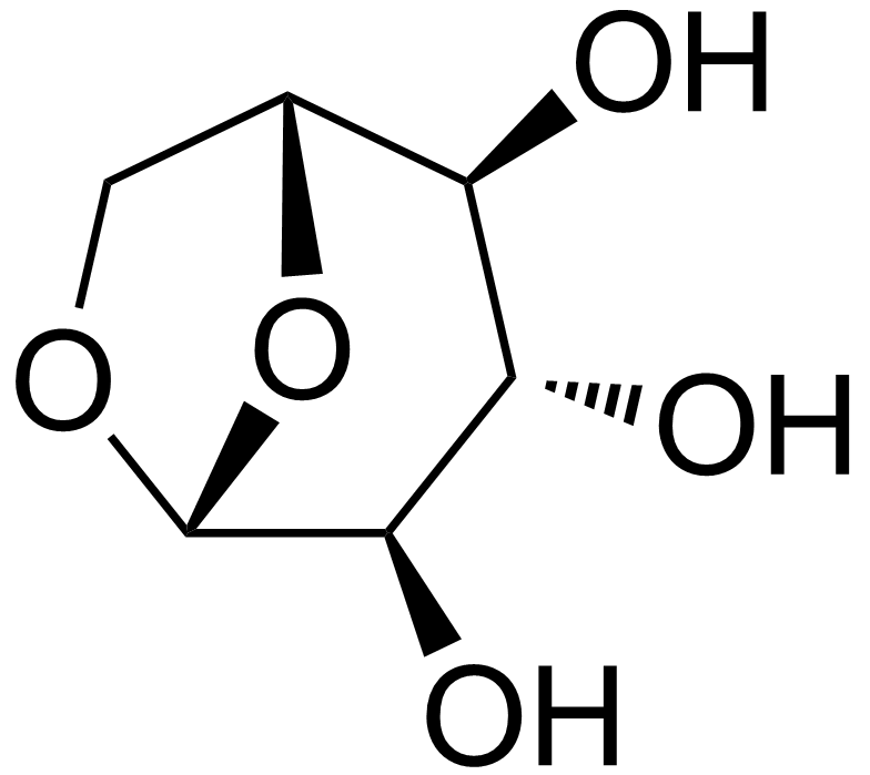 Chemical structure of levoglucosan (leucoglucosan)